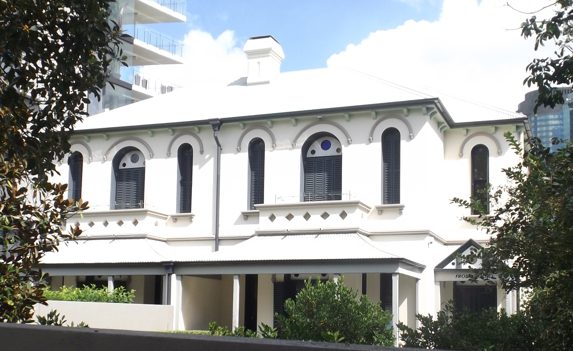 Photo of Silverwells residence at Kangaroo Point, Brisbane, Queensland, Australia.